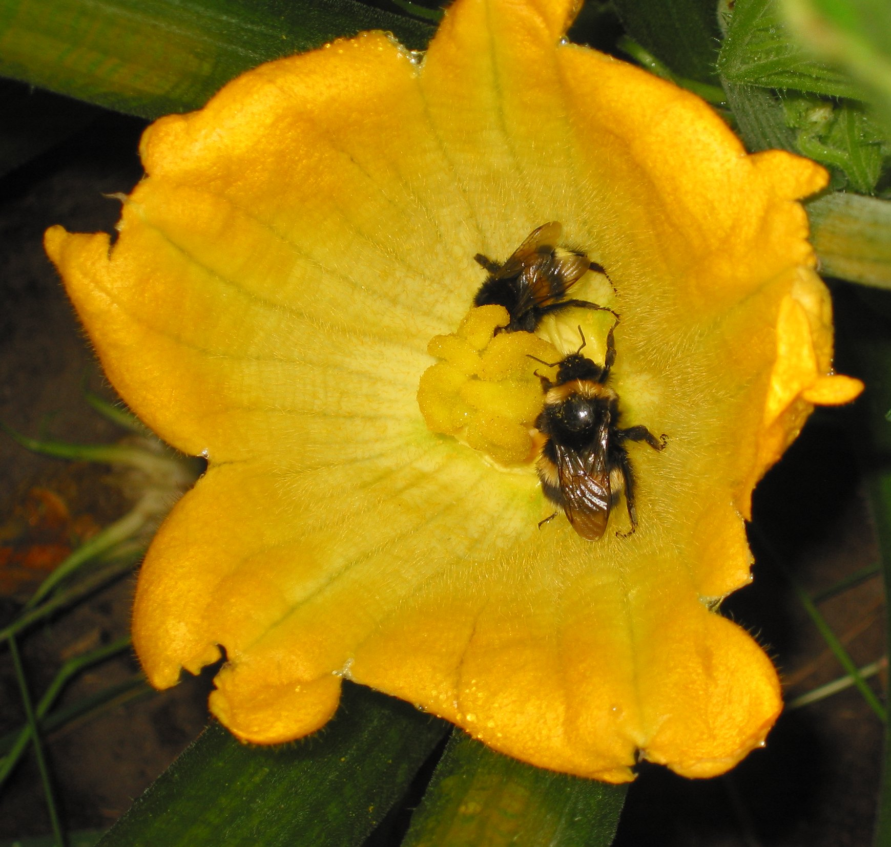 Courgette female flower with Bombus terristris